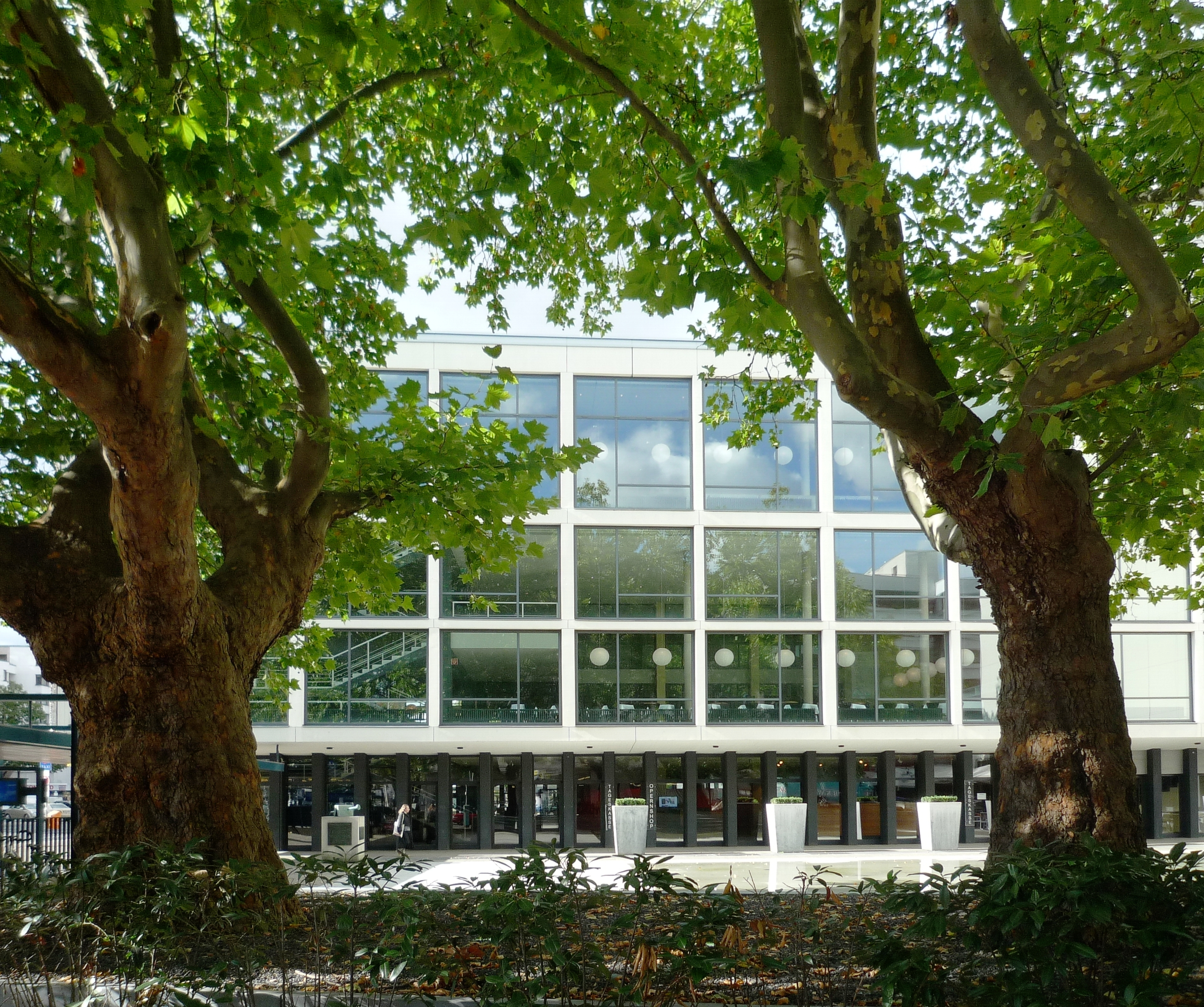 Building of the Deutsche Oper Berlin (German Opera Berlin). Partial view from East.